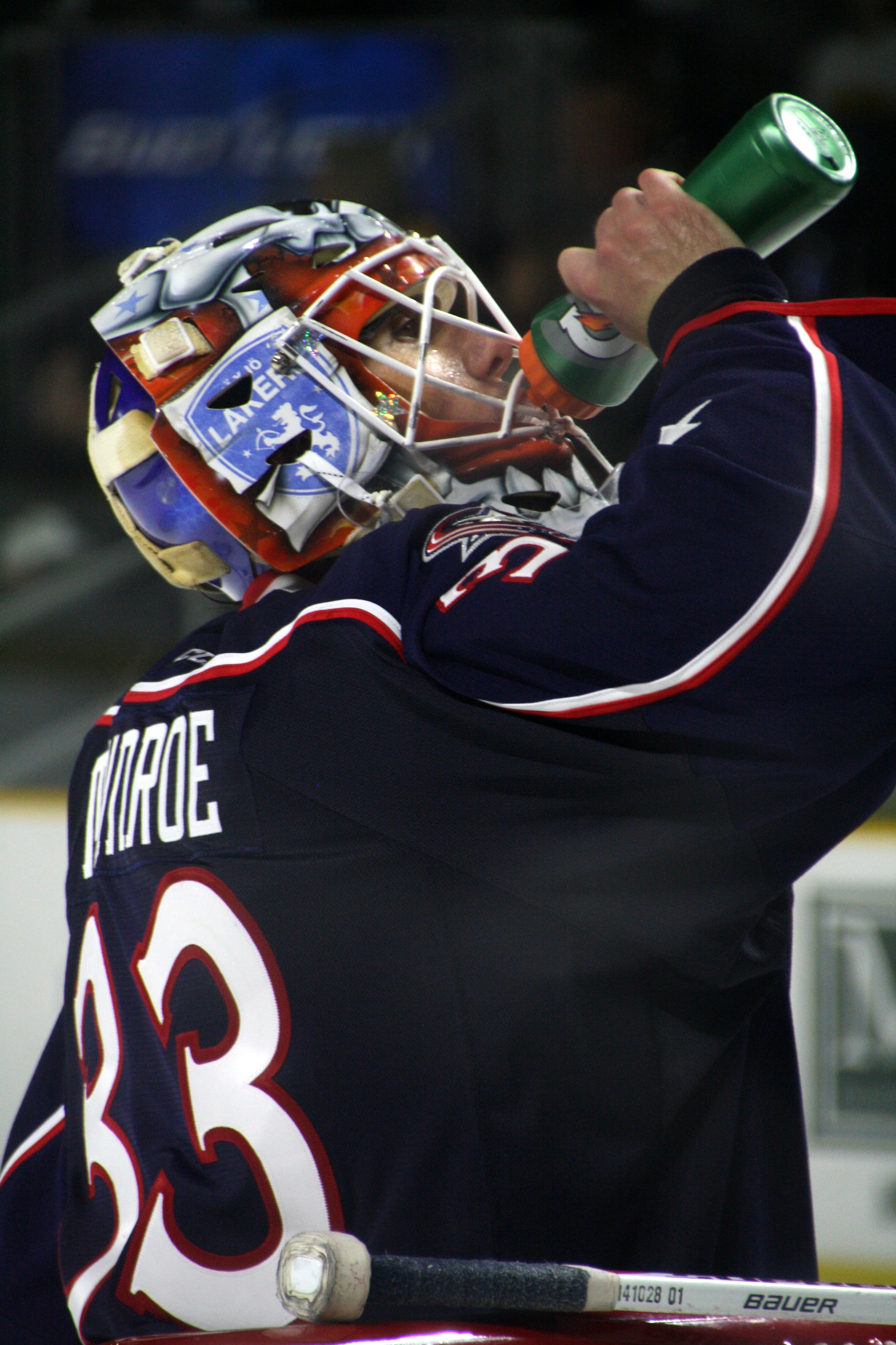 Scott Munroe with the Springfield Falcons (2014)